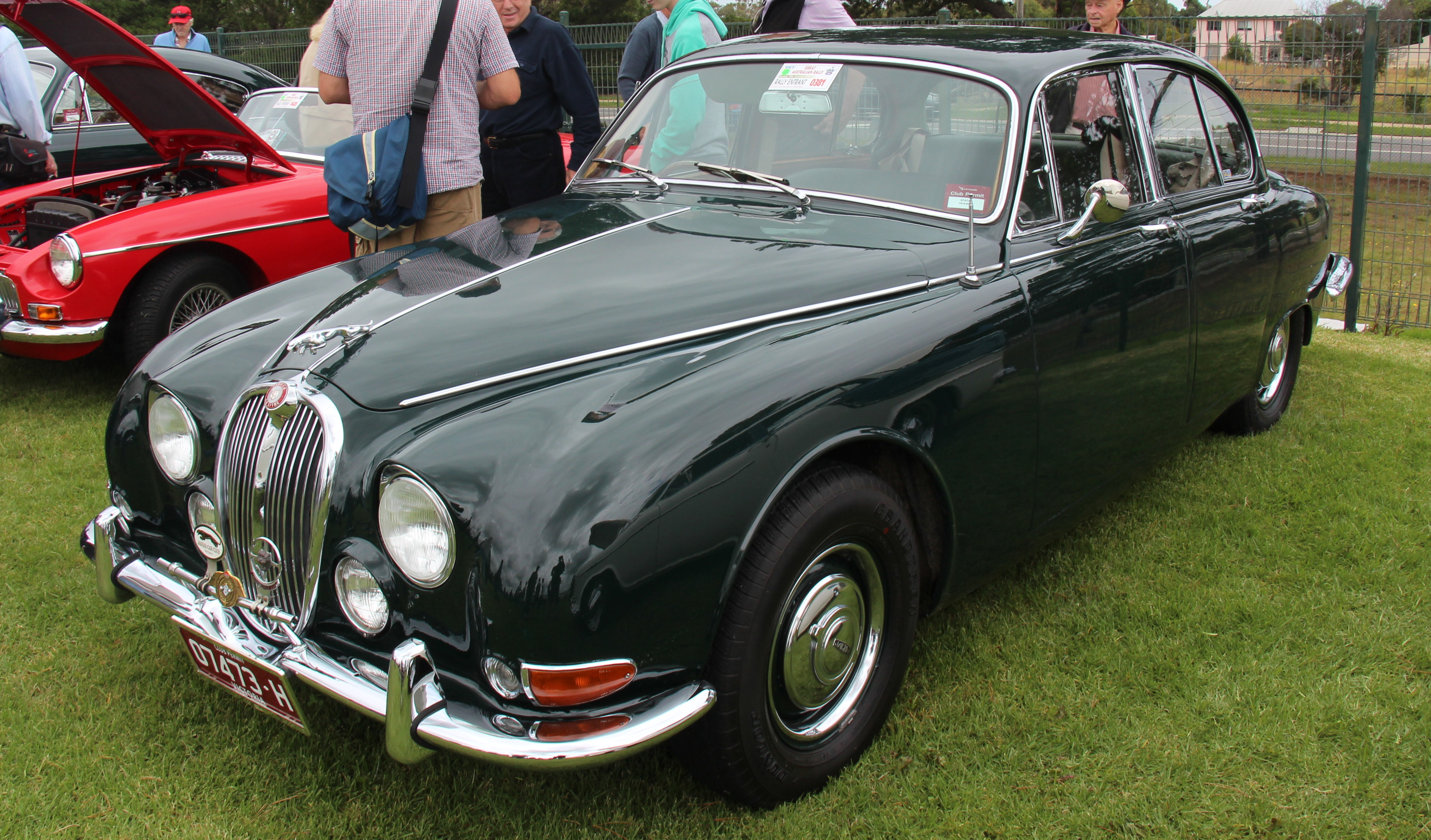 The S Type Jaguar was built from 1963-68, it was based on the Mk II, but a bit more sophisticated, offering buyers a more luxurious alternative to the Mark 2 but without the size and expense of the Mark X. It also got independent rear suspension and featured longer rear bodywork, among other styling and interior changes. The S-Type was available with either 3.4 or 3.8-litre XK engines but only in twin carburettor form because the triple carburettor setup would not fit into what was essentially still the Mark 2 engine bay. The S-Type sold alongside the Mark 2, as well as the Jaguar 420 following its release in 1966 Engines; 3400or 3800cc 6 cyl